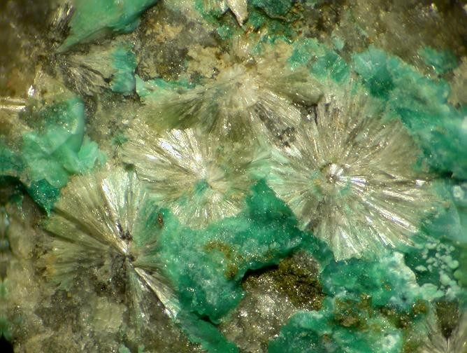 Hörnesite Locality: Schwarzleo District, Schwarzleograben, Hütten, Leogang, Saalfelden, Salzburg, Austria Field of view 5 mm. Specimen and photo Leon Hupperichs